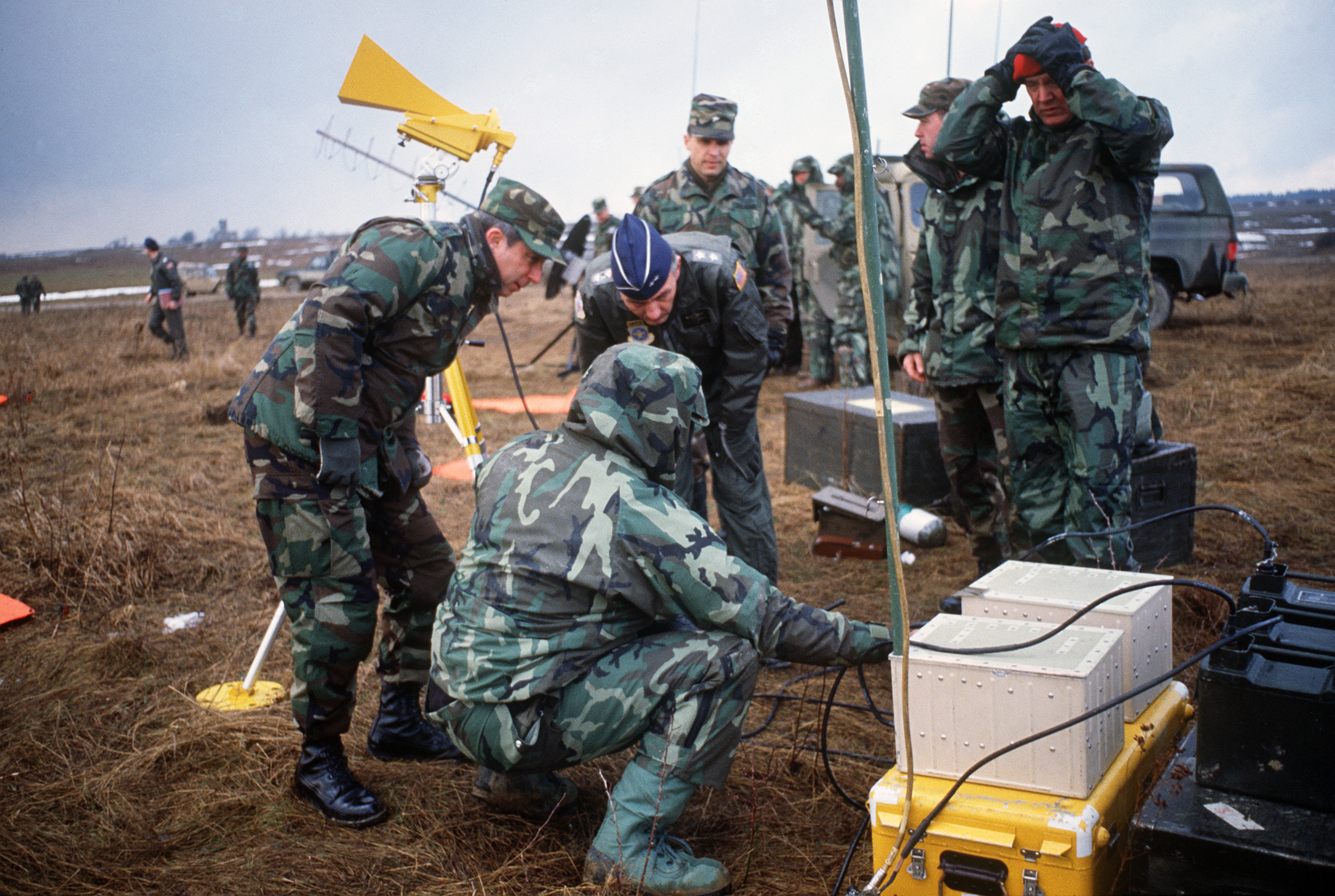 US Air Force personnel brief a general officer on the workings of satellite communications equipment during Exercise REFORGER '86 in West Germany.